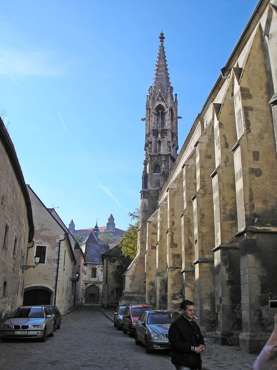 Church of the Sisters of St. Clara's Order in Bratislava, Slovakia